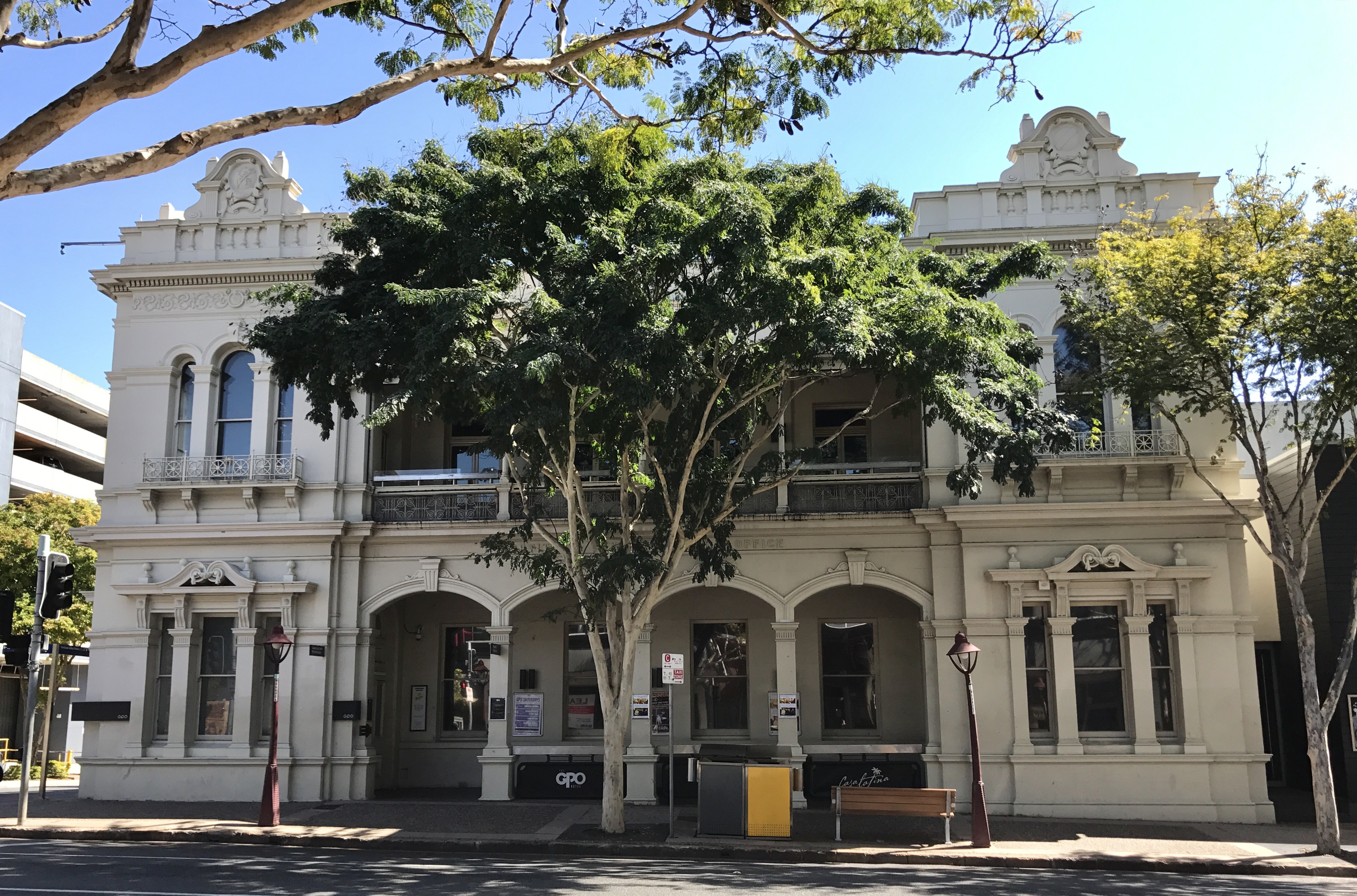 Fortitude Valley Post Office, Brisbane in August 2017